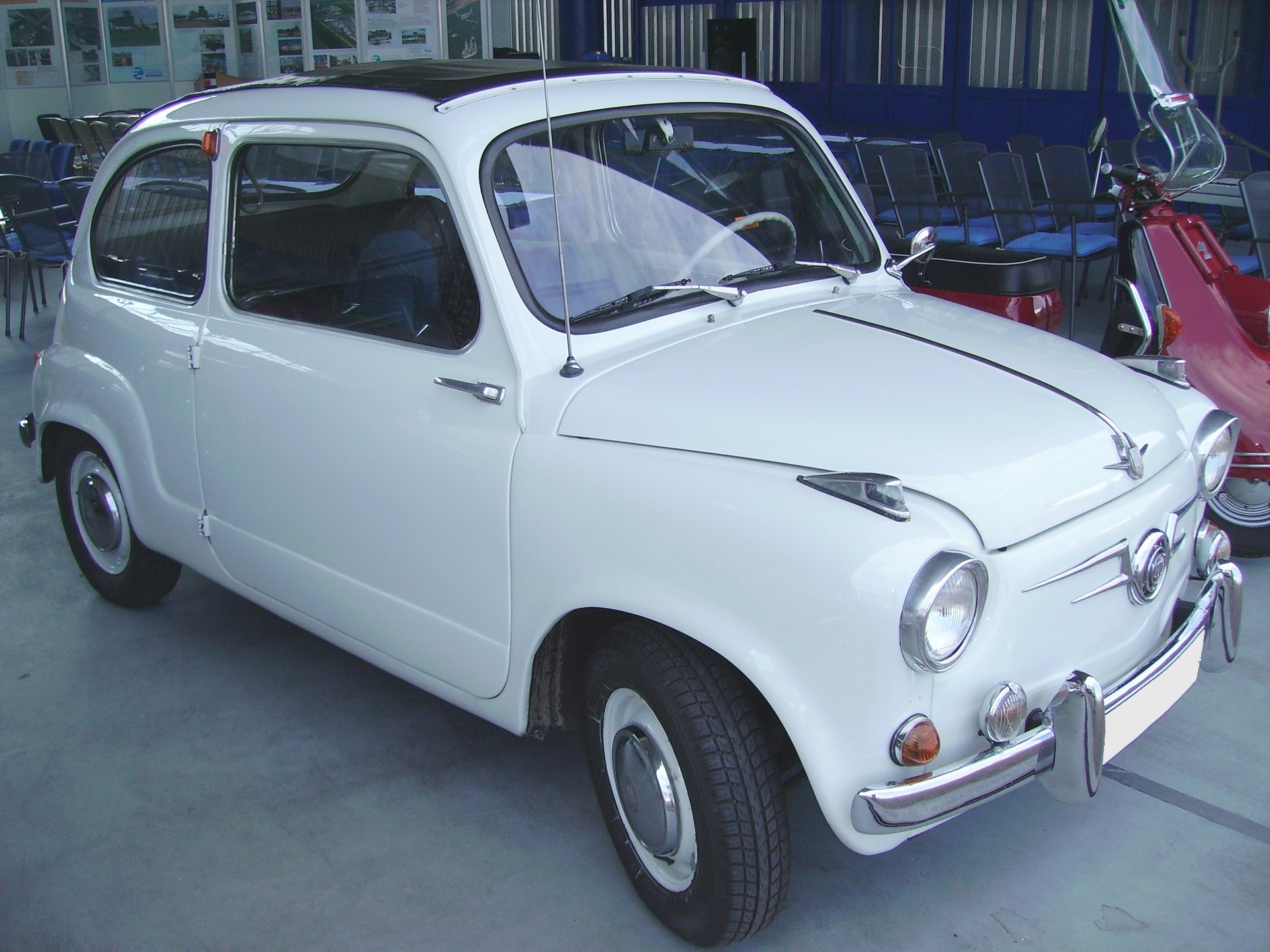 A Seat 600